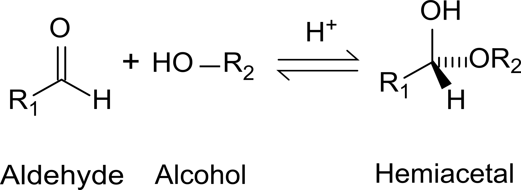 MAde with BKChem and converted to png in Inkscape